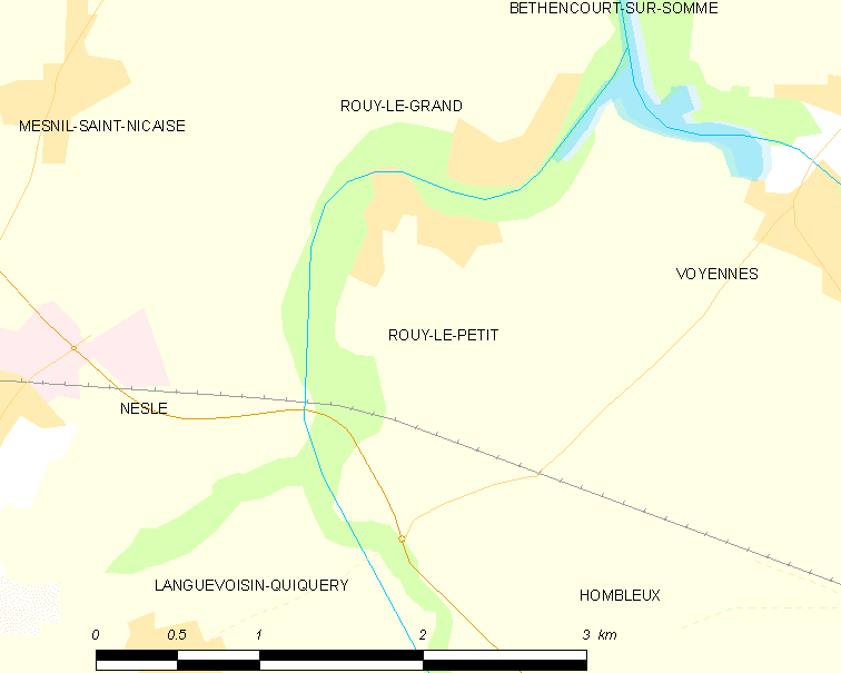 Map of French municipality Rouy-le-Petit